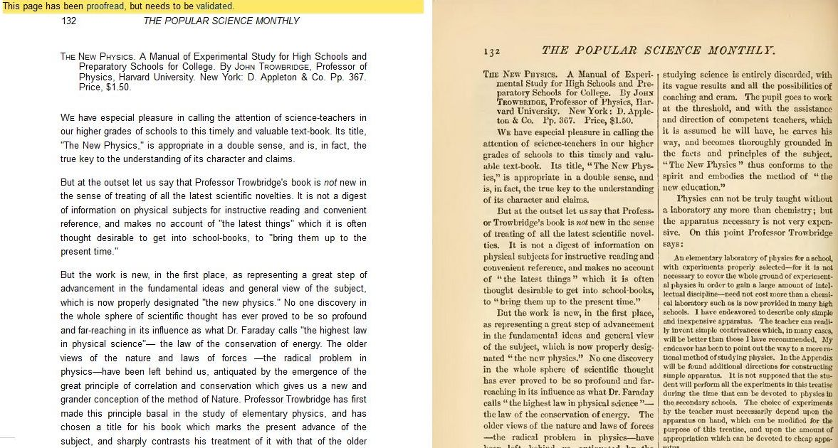 Line wrap - yes, lines flow smoothly in the paragraph